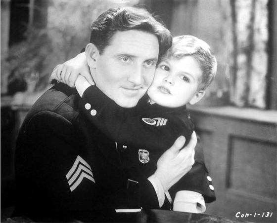 Publicity still for the 1932 film Disorderly Conduct, featuring Spencer Tracy. Such images were taken on set during filming, or as part of an organized photo-shoot, by a studio photographer. They were then disseminated to the media and the public to promote the film (see Film still). This is definitely a film still rather than a screenshot, as the quality is too high and a stock code can be seen in the corner. Public domain explanation It is unlikely that this image was secured with copyright protection, as stated by film induustry expert Gerald Mast in Film Study and the Copyright Law (1989) p. 87: "According to the old copyright act, such production stills were not automatically copyrighted as part of the film and required separate copyrights as photographic stills ... Most studios have never bothered to copyright these stills because they were happy to see them pass into the public domain, to be used by as many people in as many publications as possible." If there is any chance that the photograph was copyrighted, under the terms of the 1909 Copyright Act (which was law until 1978) it would have had to be renewed 28 years after publication, otherwise it went into the public domain. A search for copyright renewal records of 1960 ([1], [2]) reveal no trace that this occurred.